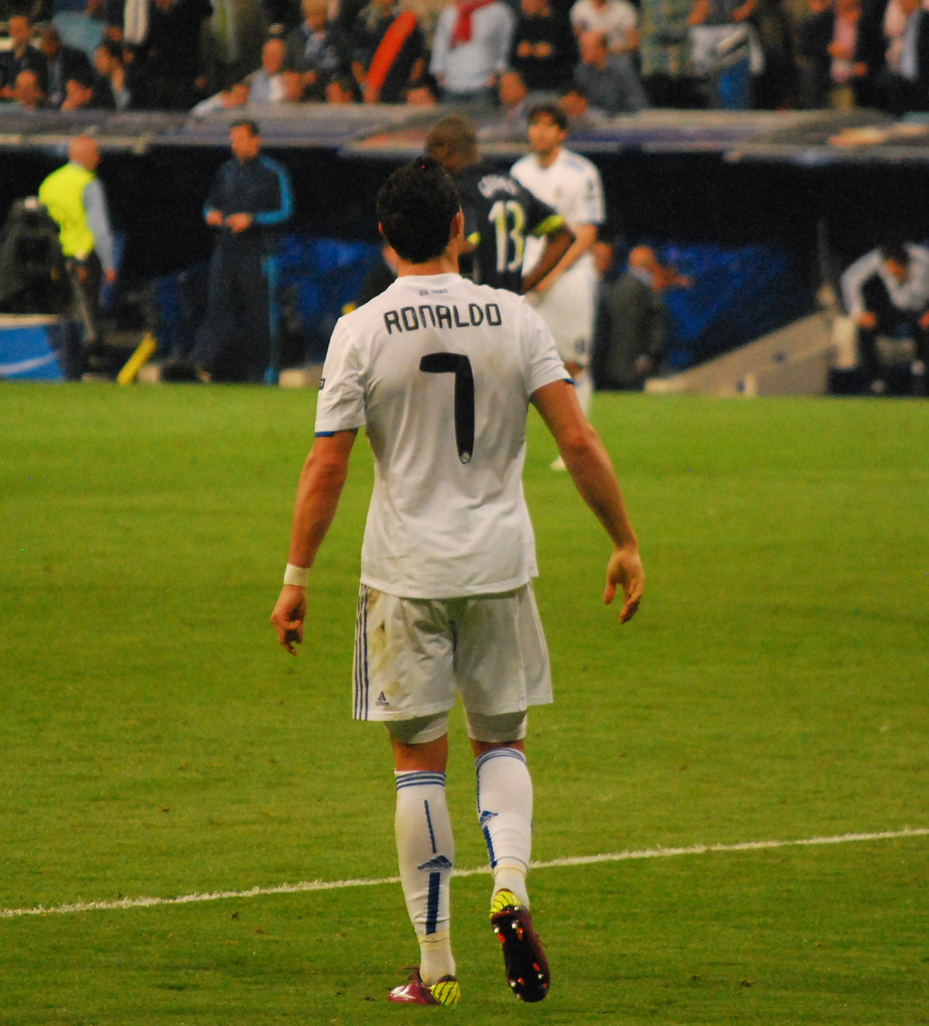 Cristiano Ronaldo during the match Real Madrid - Tottenham Hotspurs (4-0).